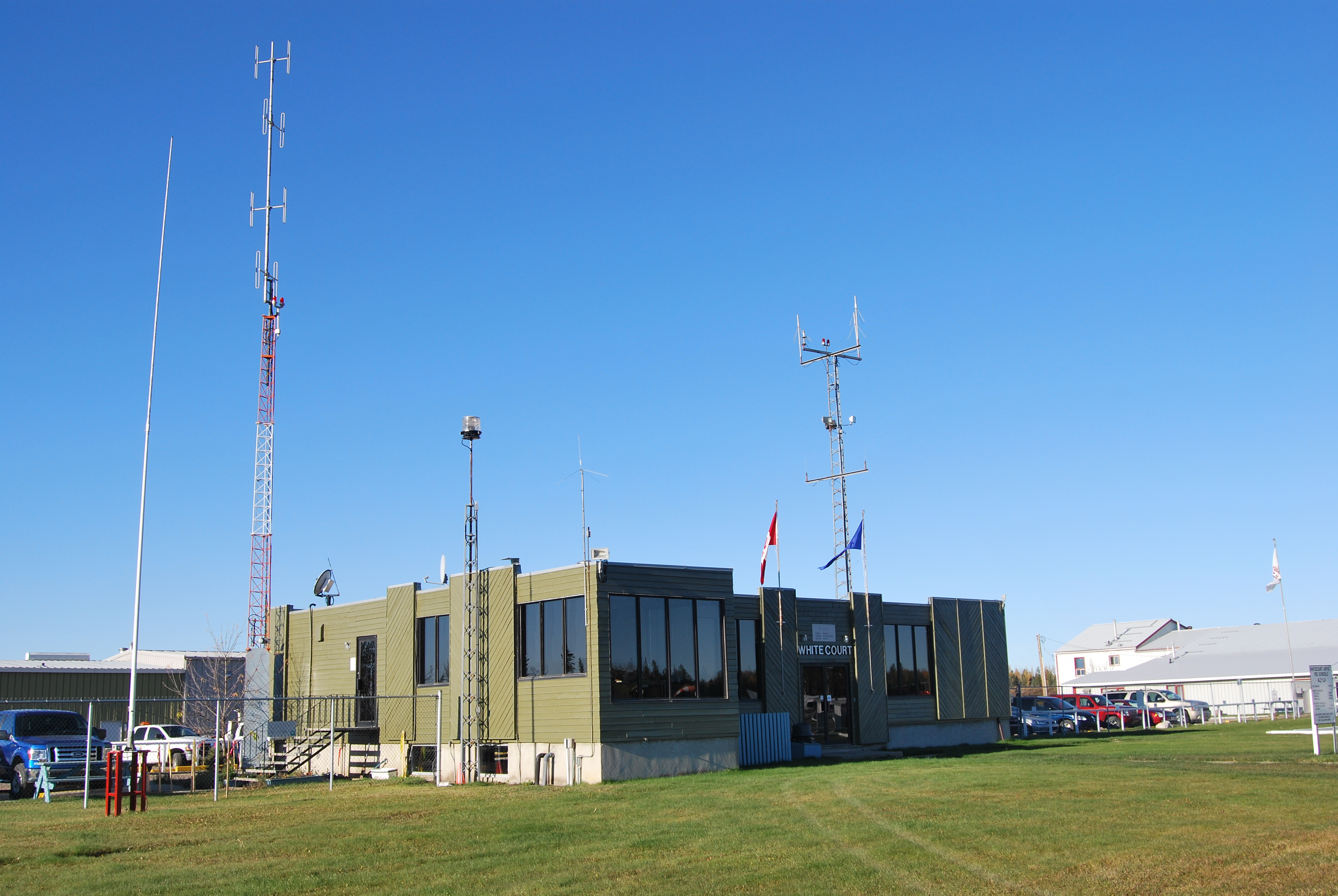 This picture was taken in 2010